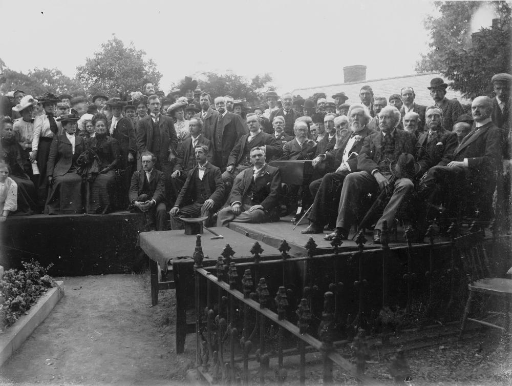 Abstract: Crowd of people congregated by the grave of Robert Owen at the old parish church, Newtown